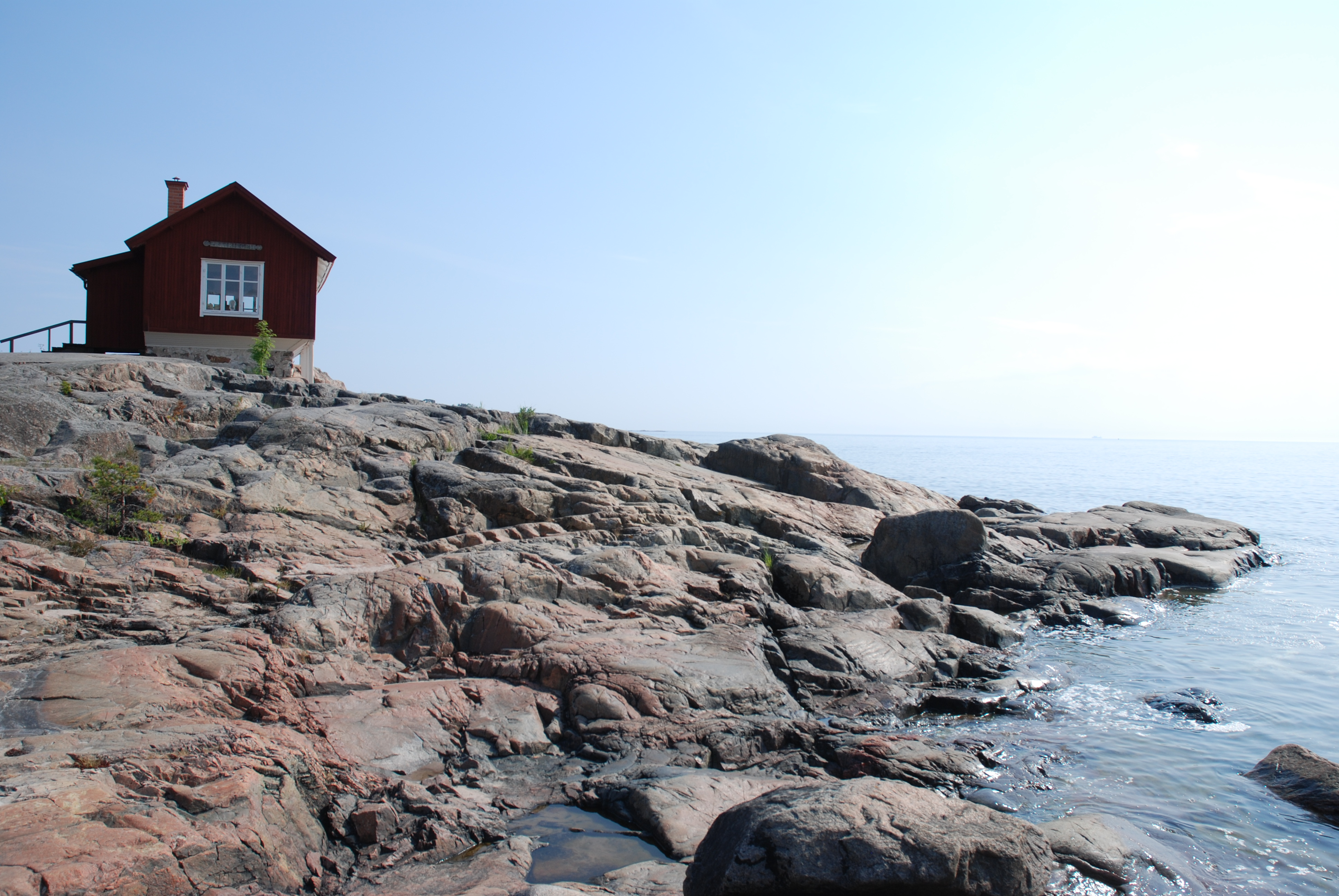 The Albert Engström Studio, Grisslehamn